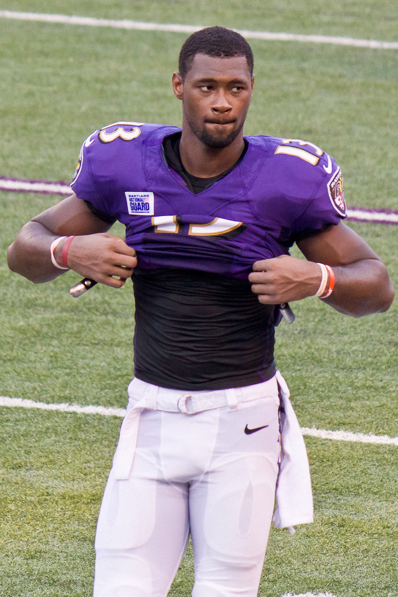 Aaron Mellette at Ravens Stadium Practice Aug 2013